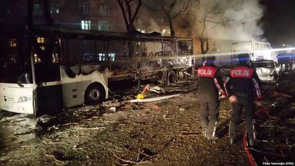 Turkish title and description of the original VOA publication: " Ankara’daki Bombalı Saldırıda 28 Ölü - Yayın tarihi 17.02.2016 - Ankara'da Genelkurmay Başkanlığı ve askeri lojmanların yakınında, askeri servis araçlarına yapılan bombalı saldırıda 28 kişi öldü. Saldırıda yaralanan 61 kişi tedavi altına alındı. Son açıklama Hükümet Sözcüsü Numan Kurtulmuş'tan geldi"